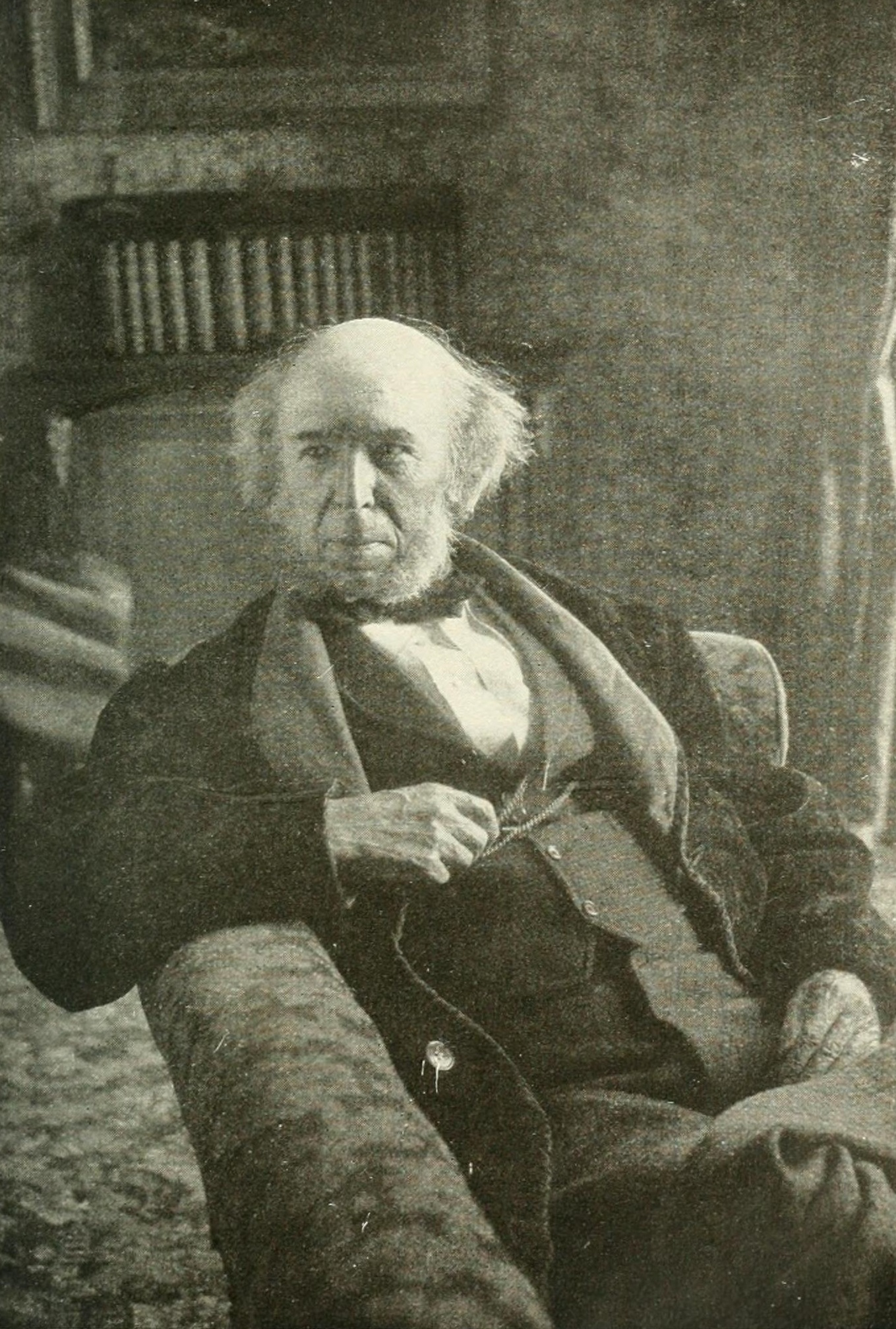 Picture of Herbert Spencer